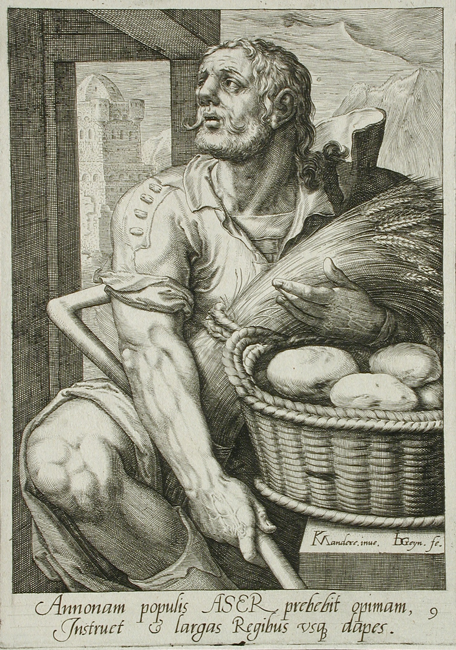 Holland, circa 1590 Series: The Twelve Sons of Jacob, pl. 9 Edition: First edition Prints; engravings Engraving Mary Stansbury Ruiz Bequest (M.88.91.296i) Prints and Drawings